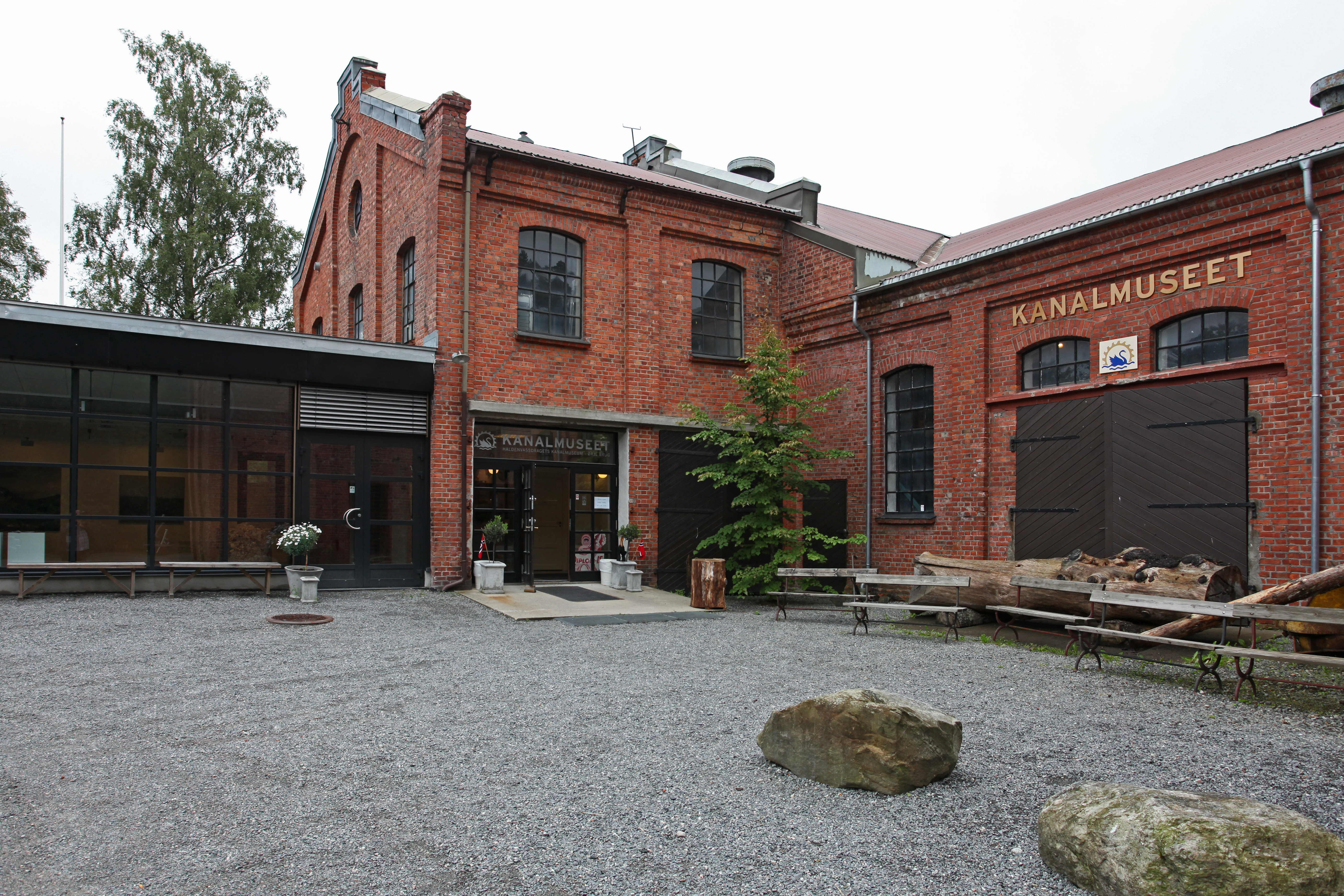 Picture of the canal museum (Ørje - Norway)